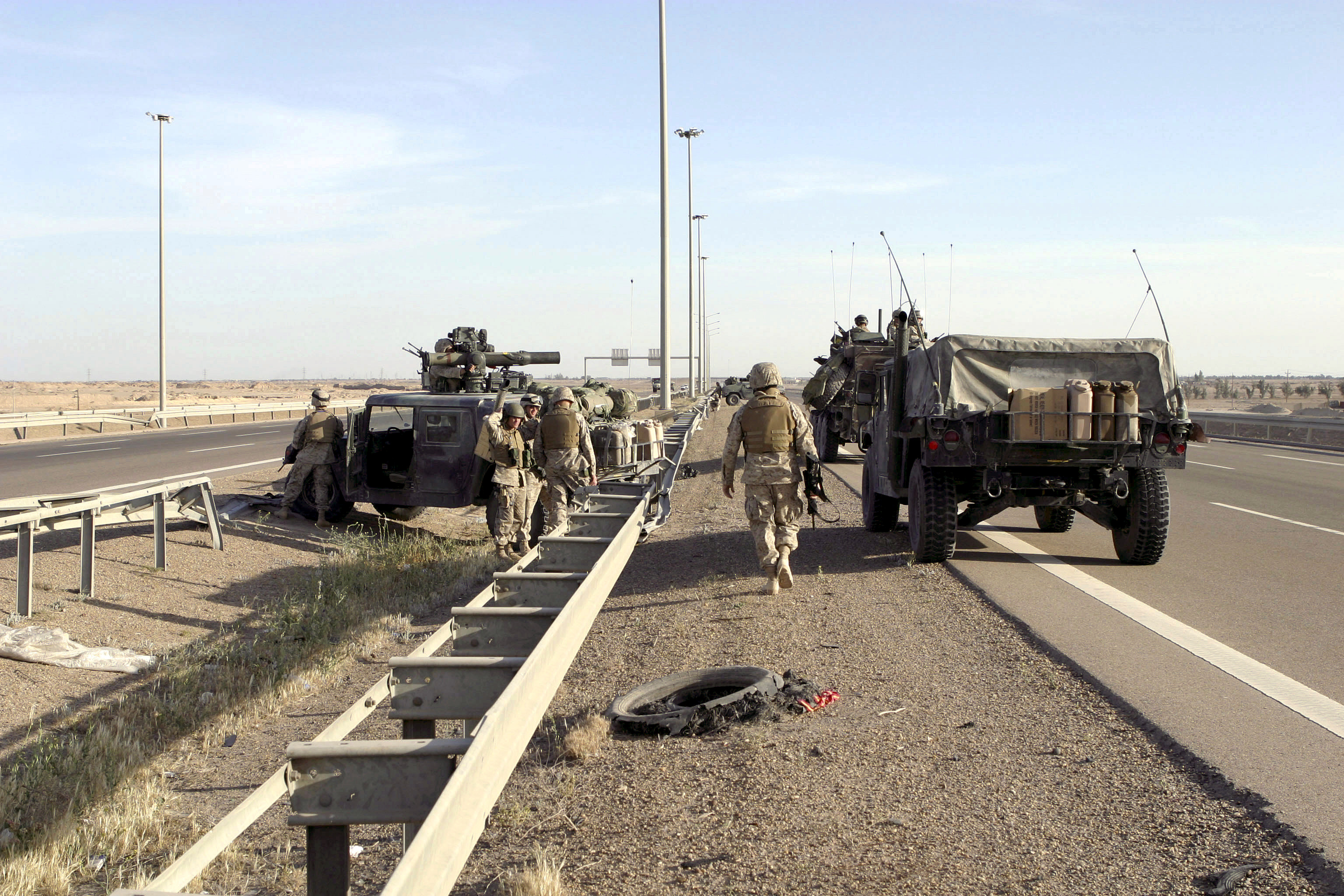 U.S. Marines with 2nd Battalion, 1st Marine Regiment, 1st Marine Division, use High-Mobility Multipurpose Wheeled Vehicles (HMMWV), one with an M220 Tow (Tube-launched, Optically-tracked, Wire-guided) System and Light Armored Vehicle-25 (LAV-25) to secure part of Highway 1 in Fallujah, Iraq during Operation IRAQI FREEDOM. The Marines cut off traffic to the city to isolate and root out terrorist forces responsible for recent attacks on Coalition Forces.